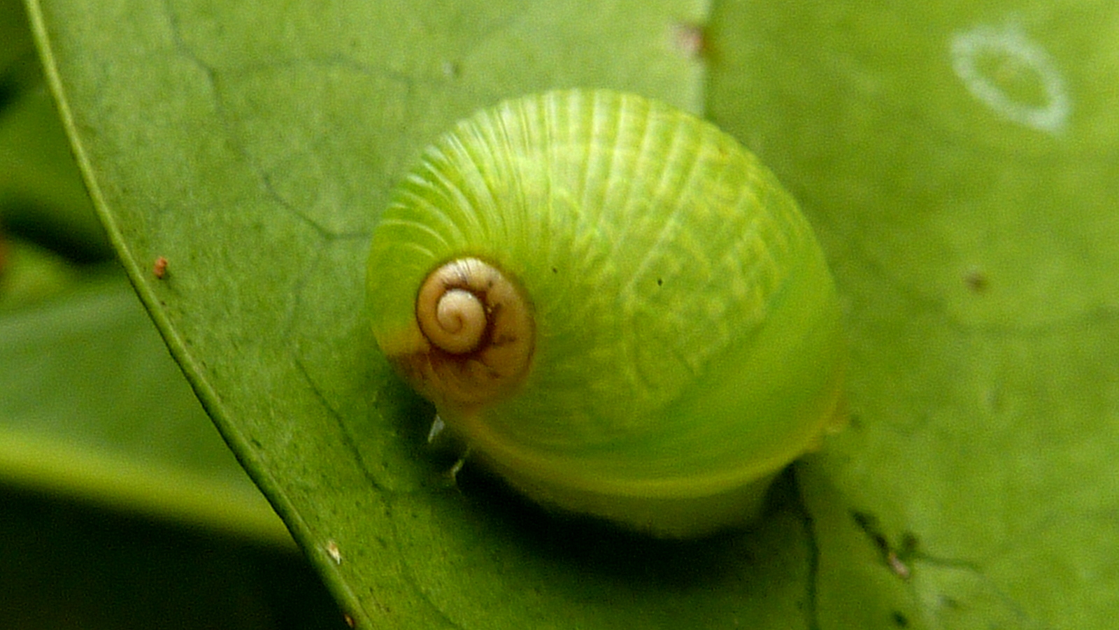 Photo of apical view of Simpulopsis rufovirens